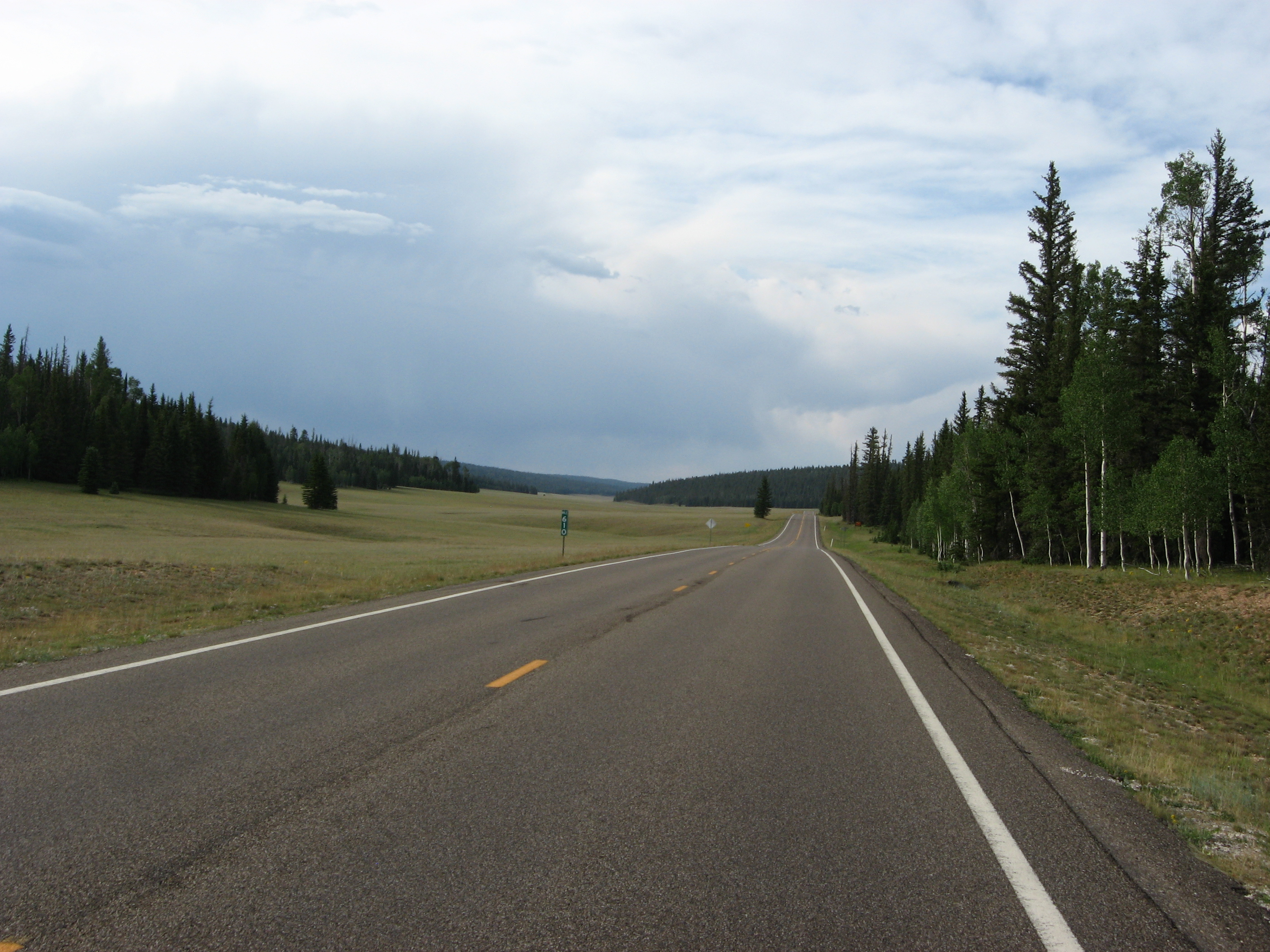 Arizona State Route 67 in between Jacob Lake and Grand Canyon National Park.